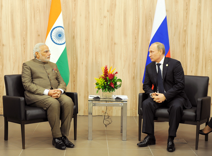 Prime Minister of India meets President of Russia Vladimir Putin in Fortaleza.